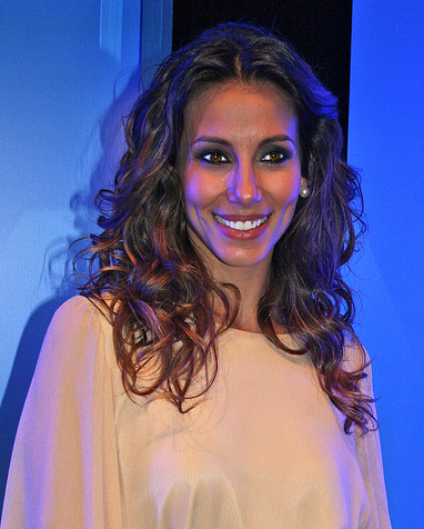 Tânia Khalil at a presentation of new Samsung cell phones at the Fasano jardins.